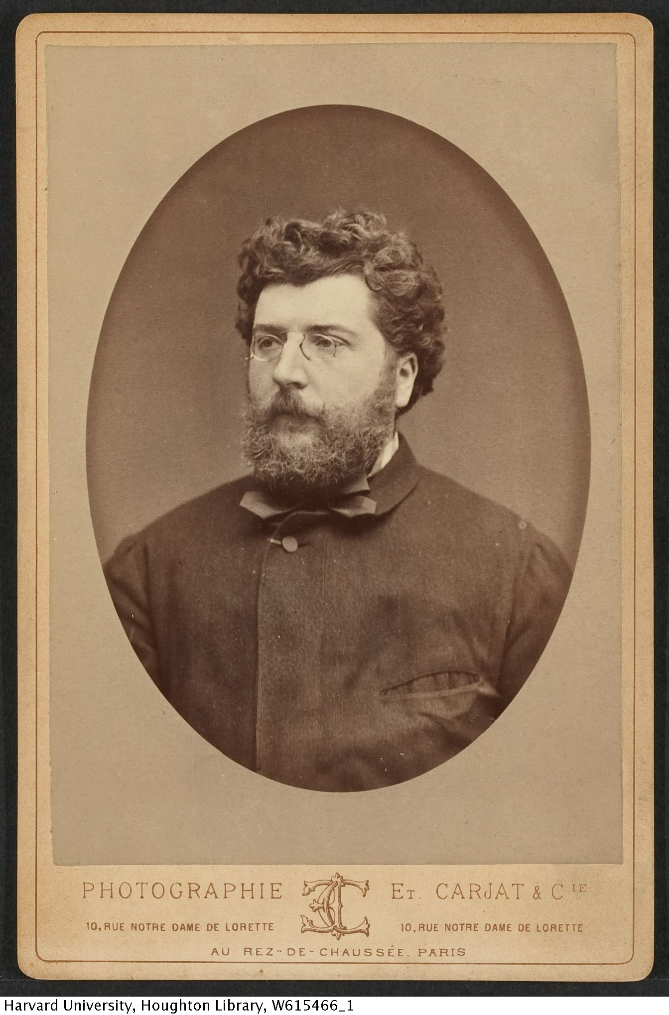 Cabinet card image of French composer Georges Bizet (1838-1875). TCS 1.2564, Harvard Theatre Collection, Harvard University